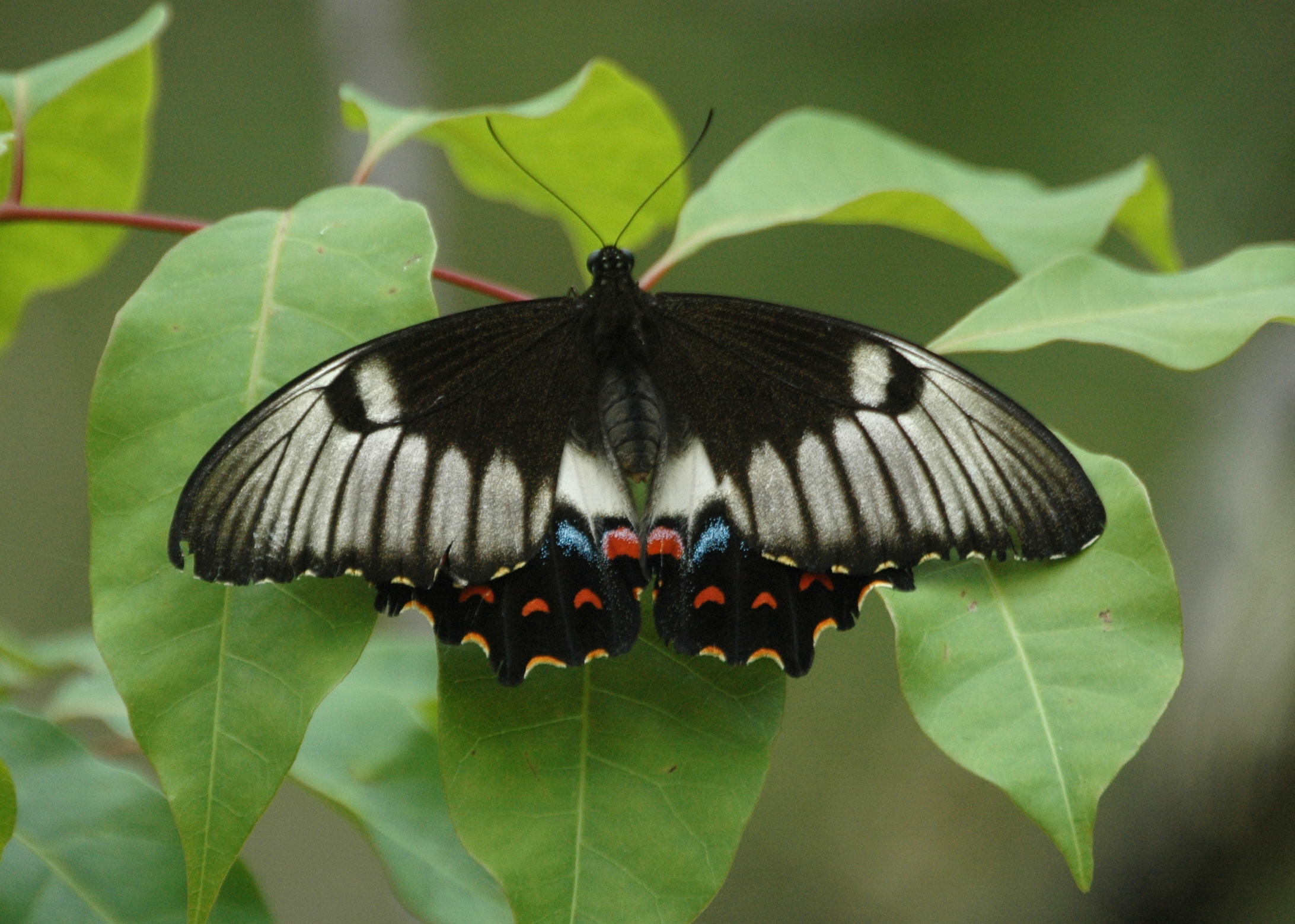 Orchard Swallowtail Butterfly (Papilio aegeus) Lamington NP, SE Queensland, Australia